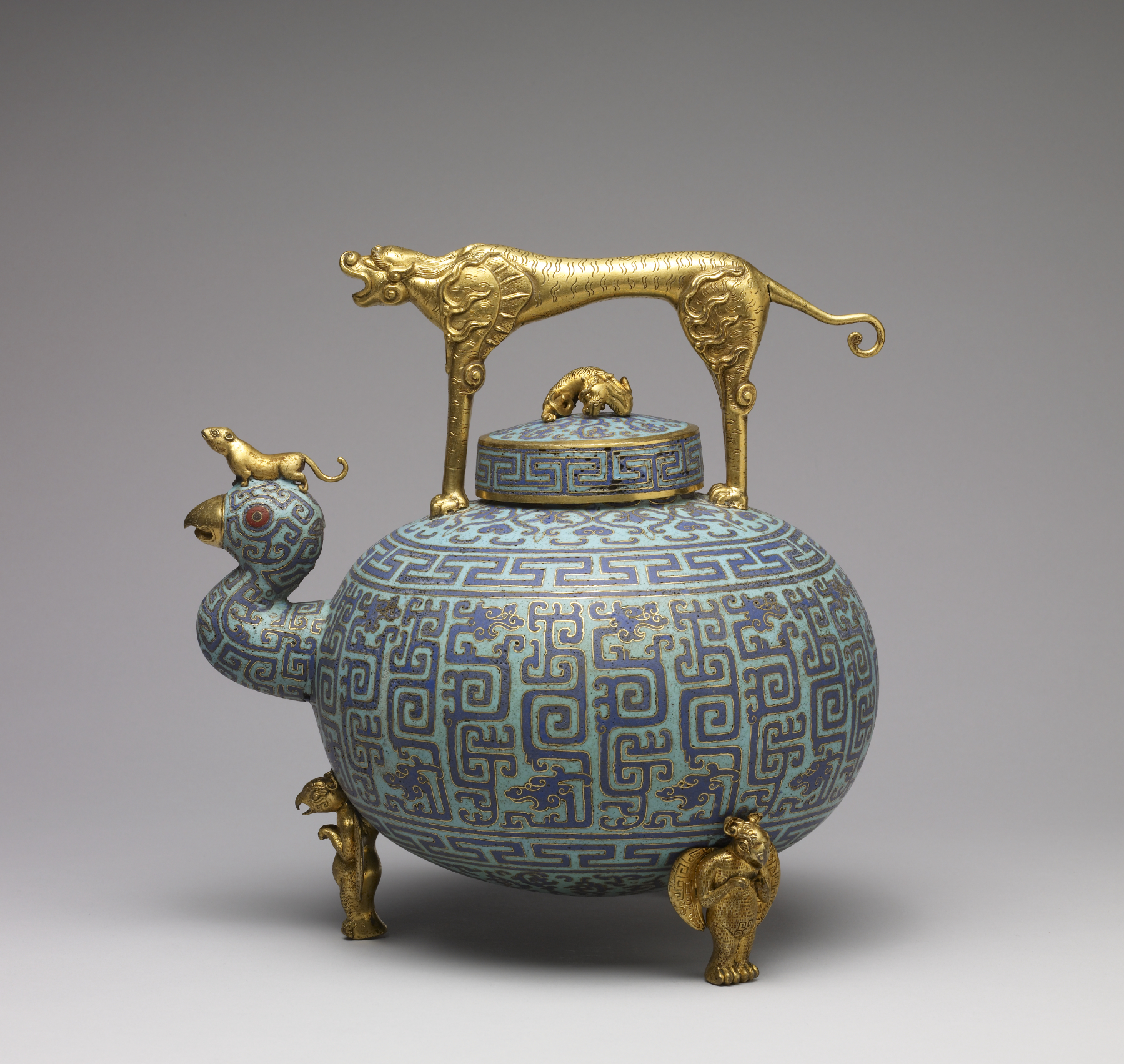 This is an entirely imaginary recreation, loosely based on the Zhou [Chou] Dynasty inlaid bronzes of the 5th-4th centuries BC. A bronze vessel of this form was in the imperial collection in 1751 and was considered genuinely ancient.